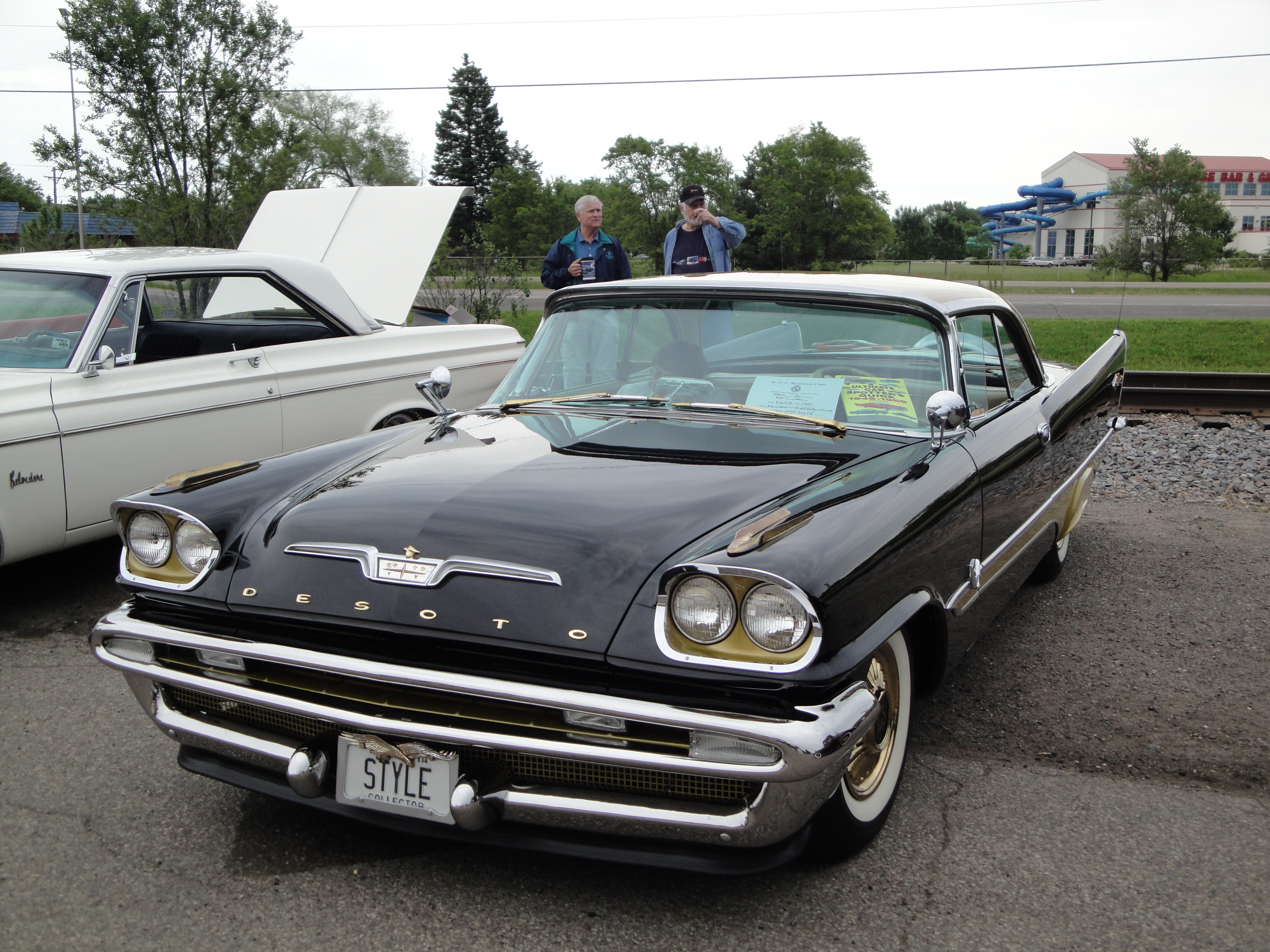 W.P.C. Restorers Club 10,000 Lakes Region Car Show June 12, 2011 Wagner's Drive in